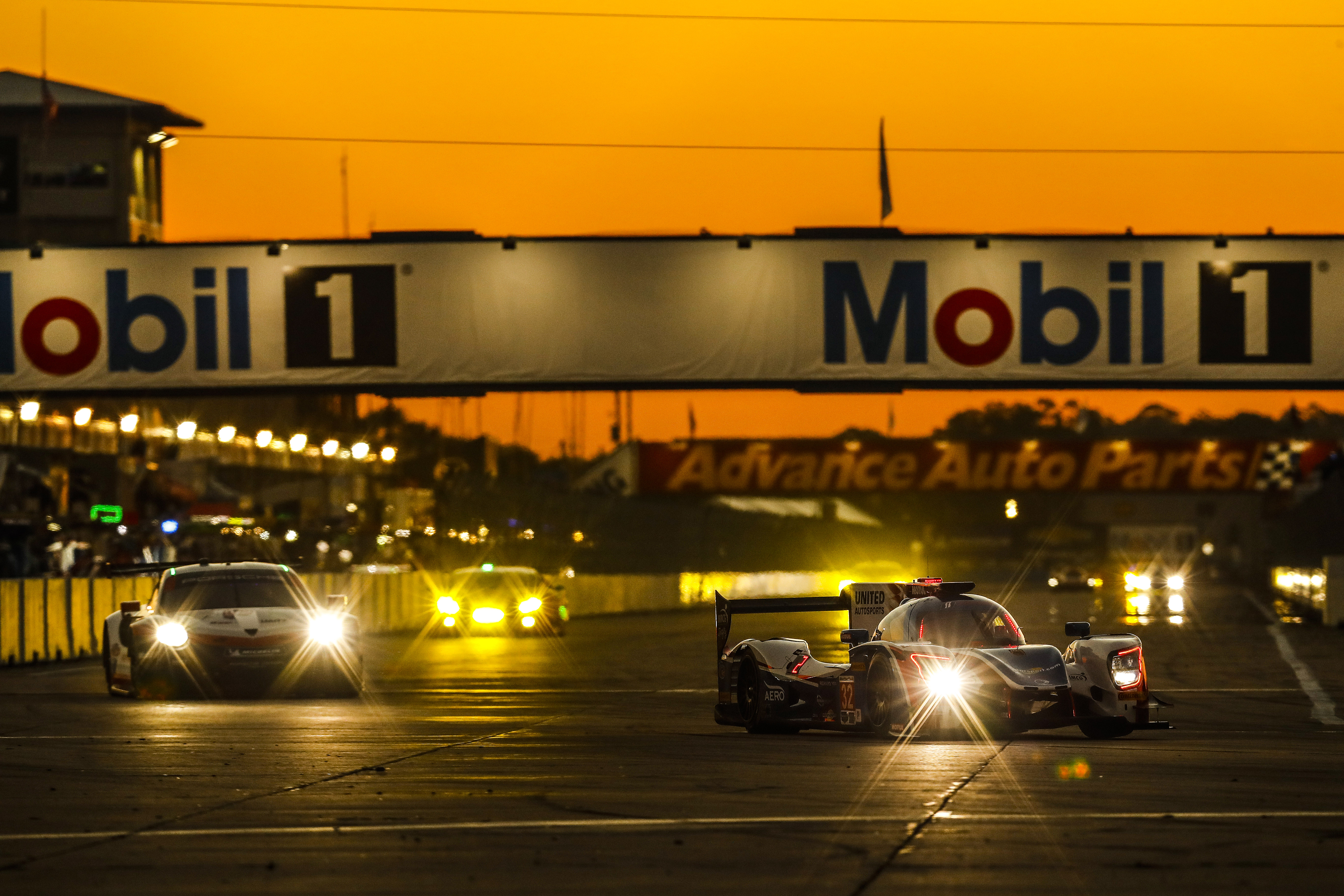 IMSA WeatherTech SportsCar Championship